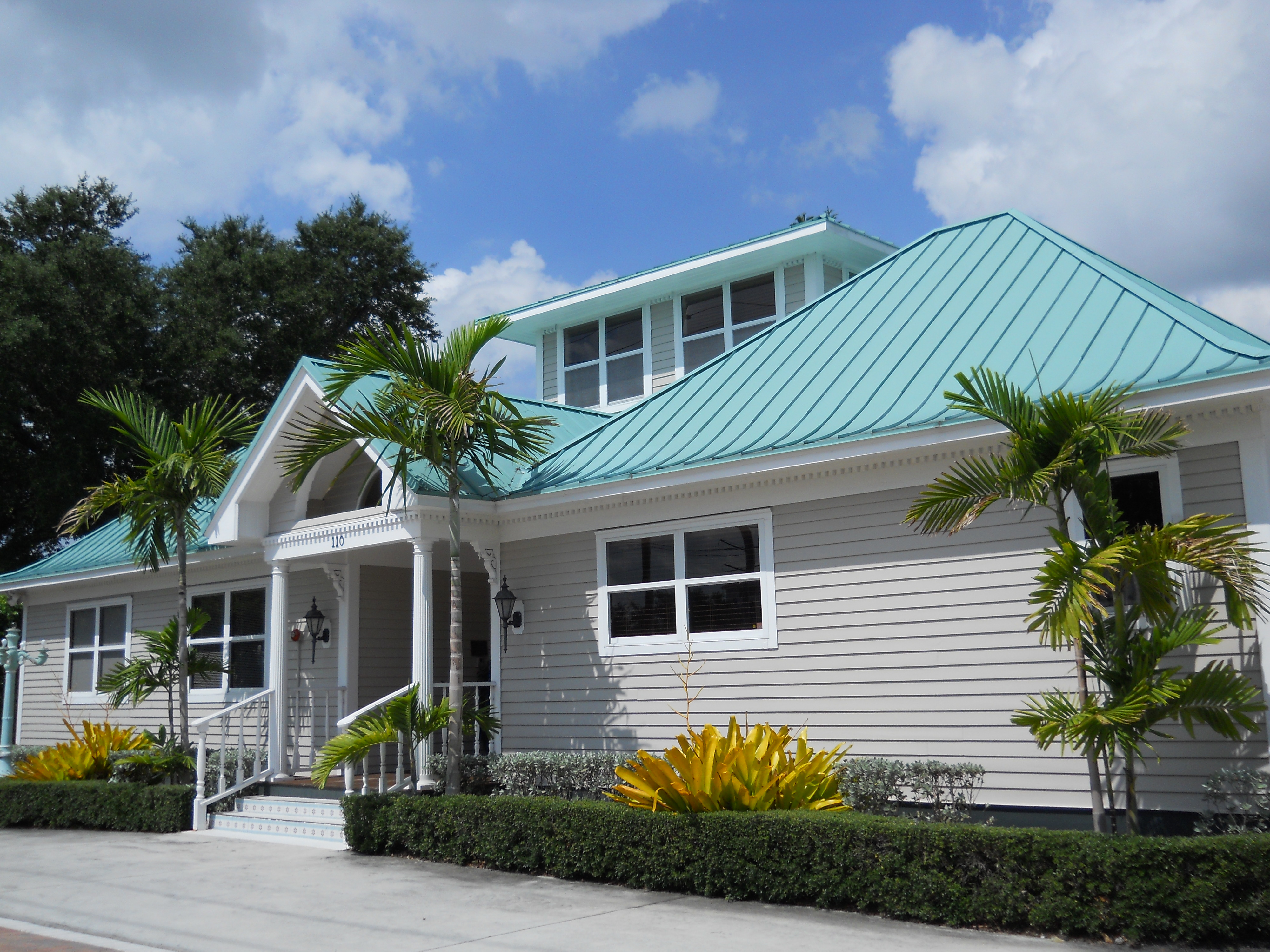 Dudley - Bessey House, built 1890, 110 SW Atlanta Avenue, Stuart, Florida: East or street elevation. The historic main entrance was on the west side facing the South Fork of the St. Lucie River